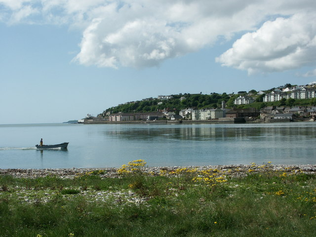 Ferry Point towards Youghal Taken 21st May 2007